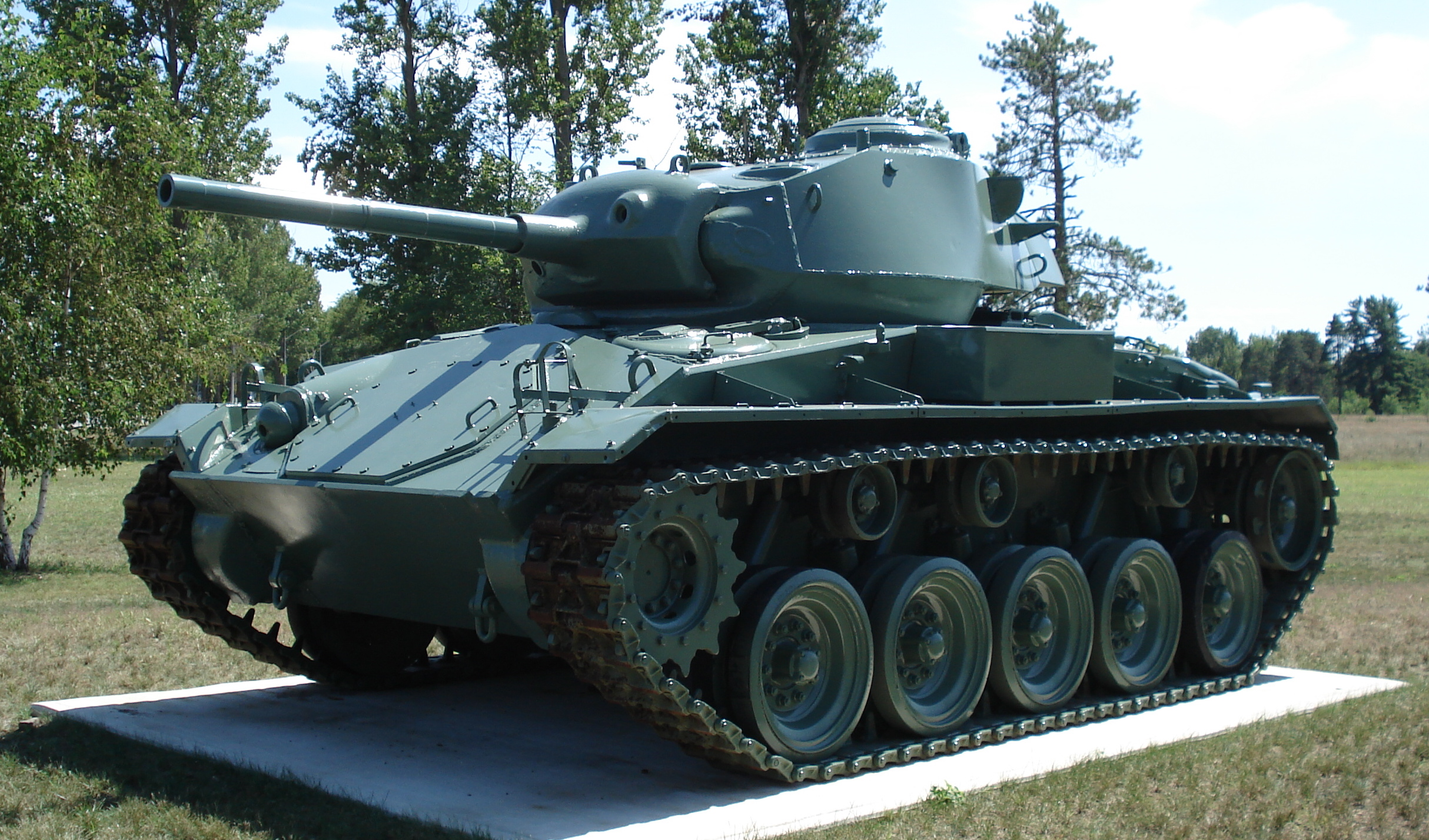 M24 Chaffee light tank. This example is displayed on the grounds of CFB Borden (Base Borden Military Museum). Photo taken on August 12, 2006. Source: Photo by me, User:Balcer.